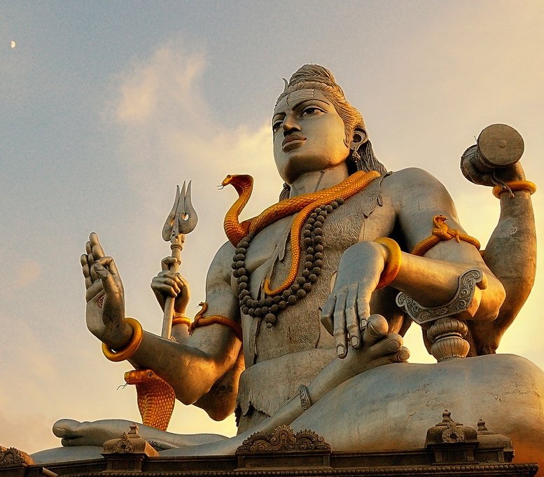 Statue of Shiva at Murudeshwar, cropped from Big Huge Labs